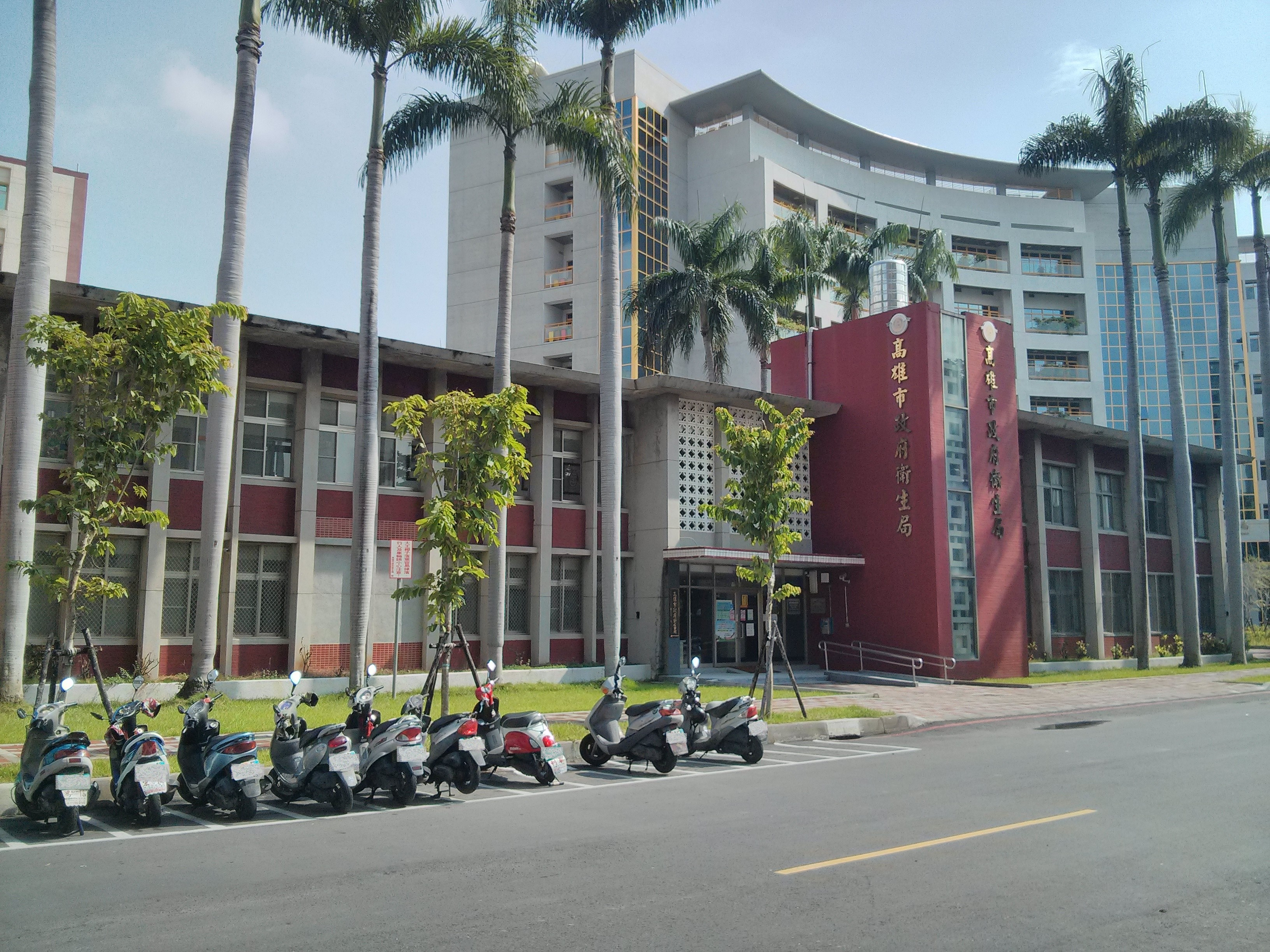 Department of Health, Kaohsiung City Government.